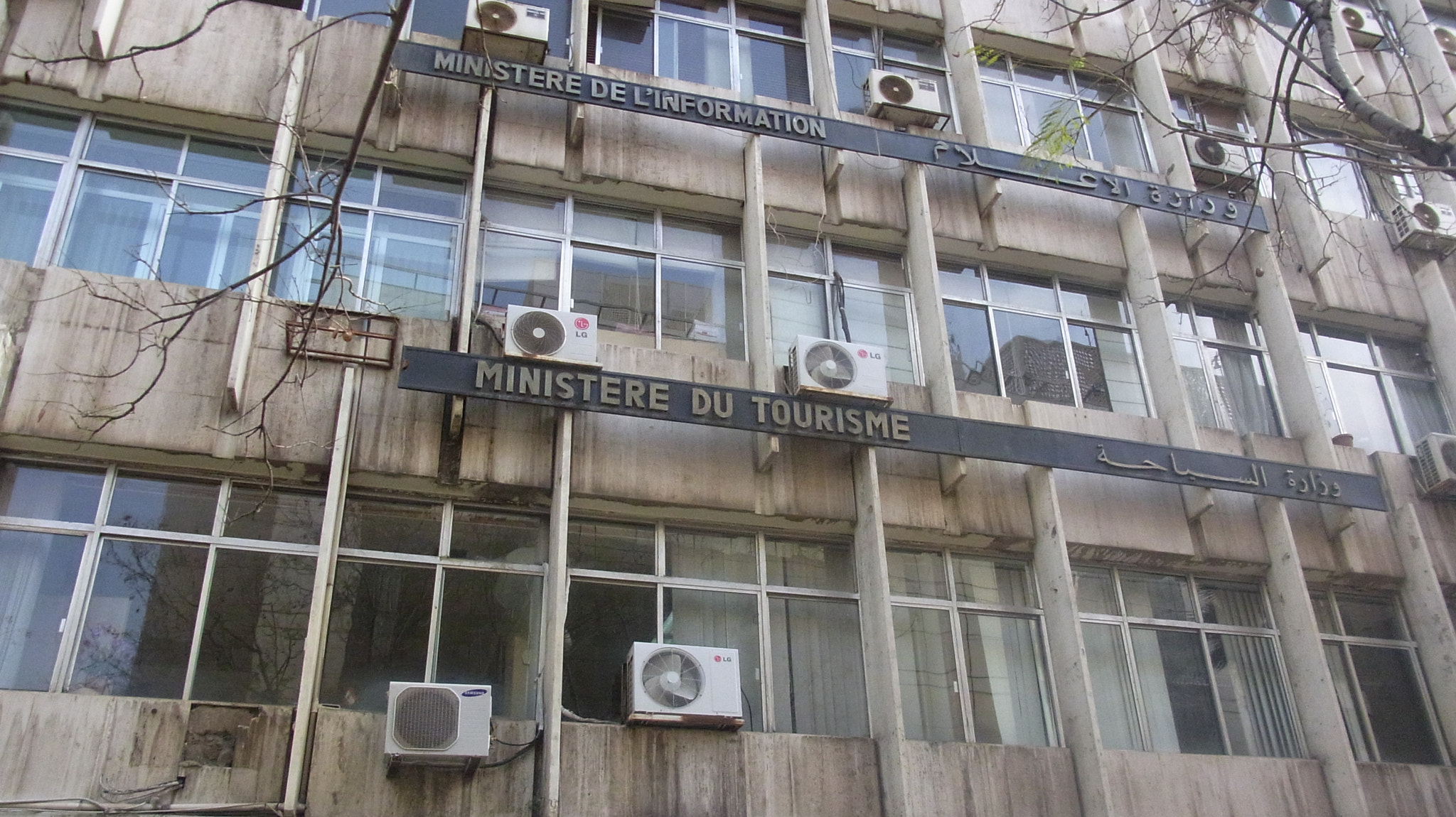 500px provided description: In Hamra, West Beirut. I honestly don't think anyone works here. [#Lebanon ,#Beirut ,#Tourism]